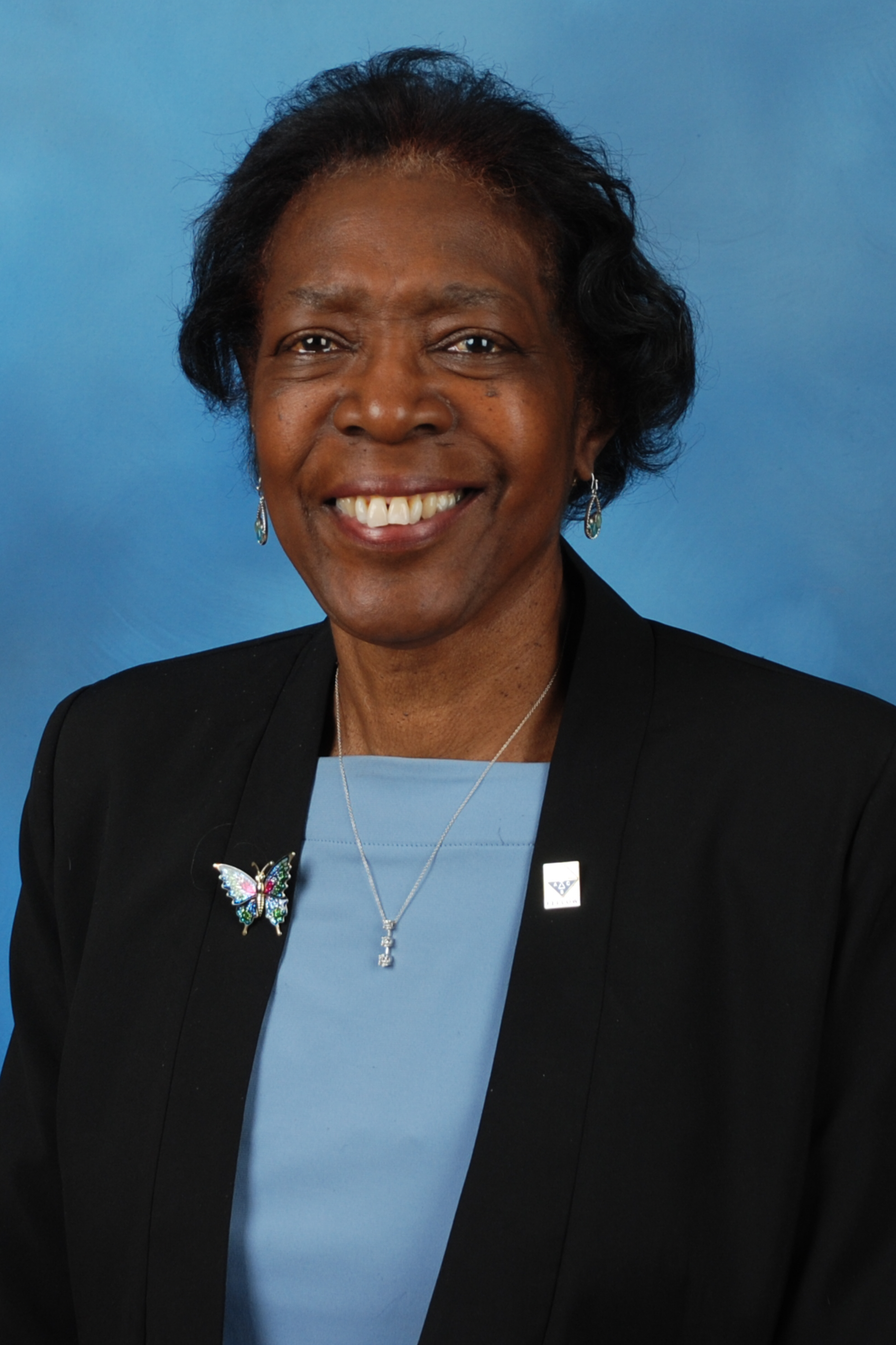 Photograph of chemist Dorothy J. Phillips